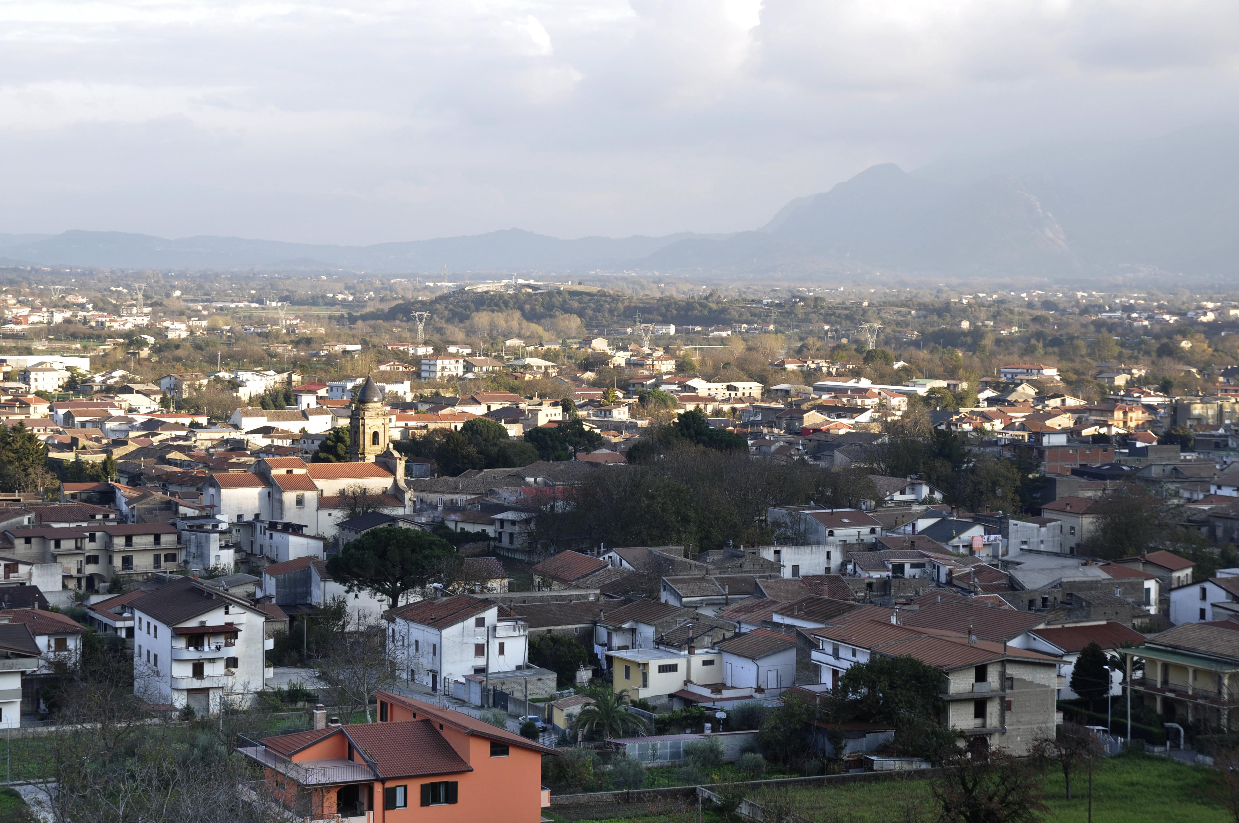 A view from above of the comune of Moiano, in the province of Benevento. The picture was taken from a nearby hill, and also shows part of the Valle Caudina.